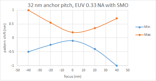 A metal layer targeting 16 nm CD patterned with EUV SMO single exposure is able to have a 100 nm CD 200 nm pitch overlay mark more in line with the 16 nm half-pitch metal lines, but not every feature in the same layer is easily captured within +/-1 nm shift over +/- 40 nm focus window. Ref.: W. Gillijns et al., Proc. SPIE vol. 10143, 1014314 (2017).